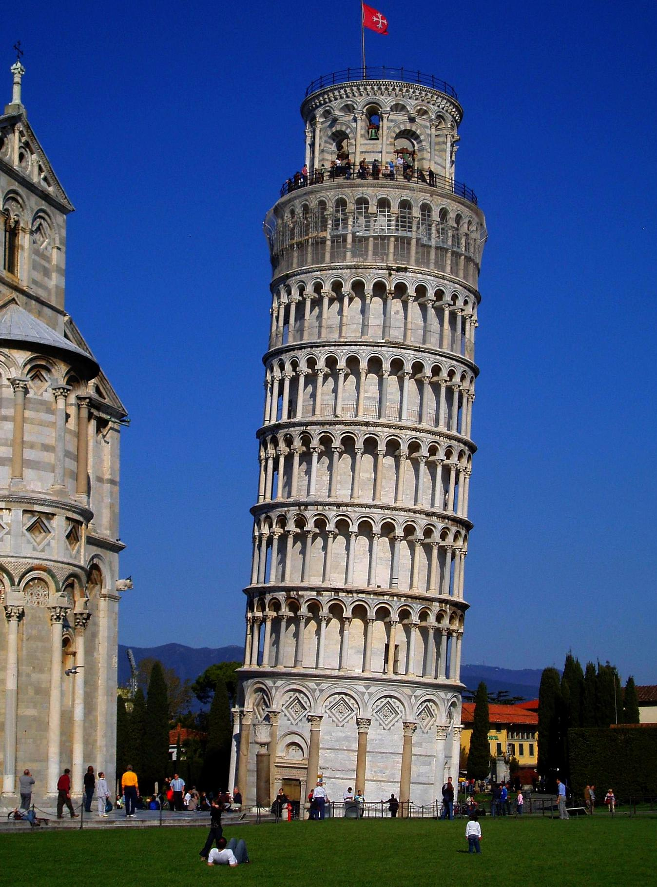 A Classical View of Leaning Tower in Pisa